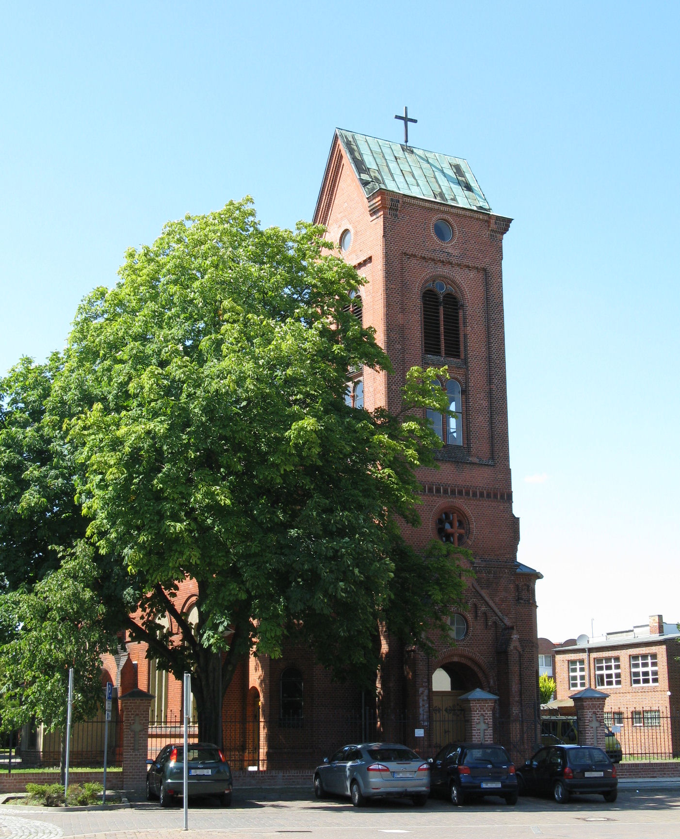 Catholic Parish Church of St. Henry in Wittenberge, Prignitz district, Brandenburg, Germany